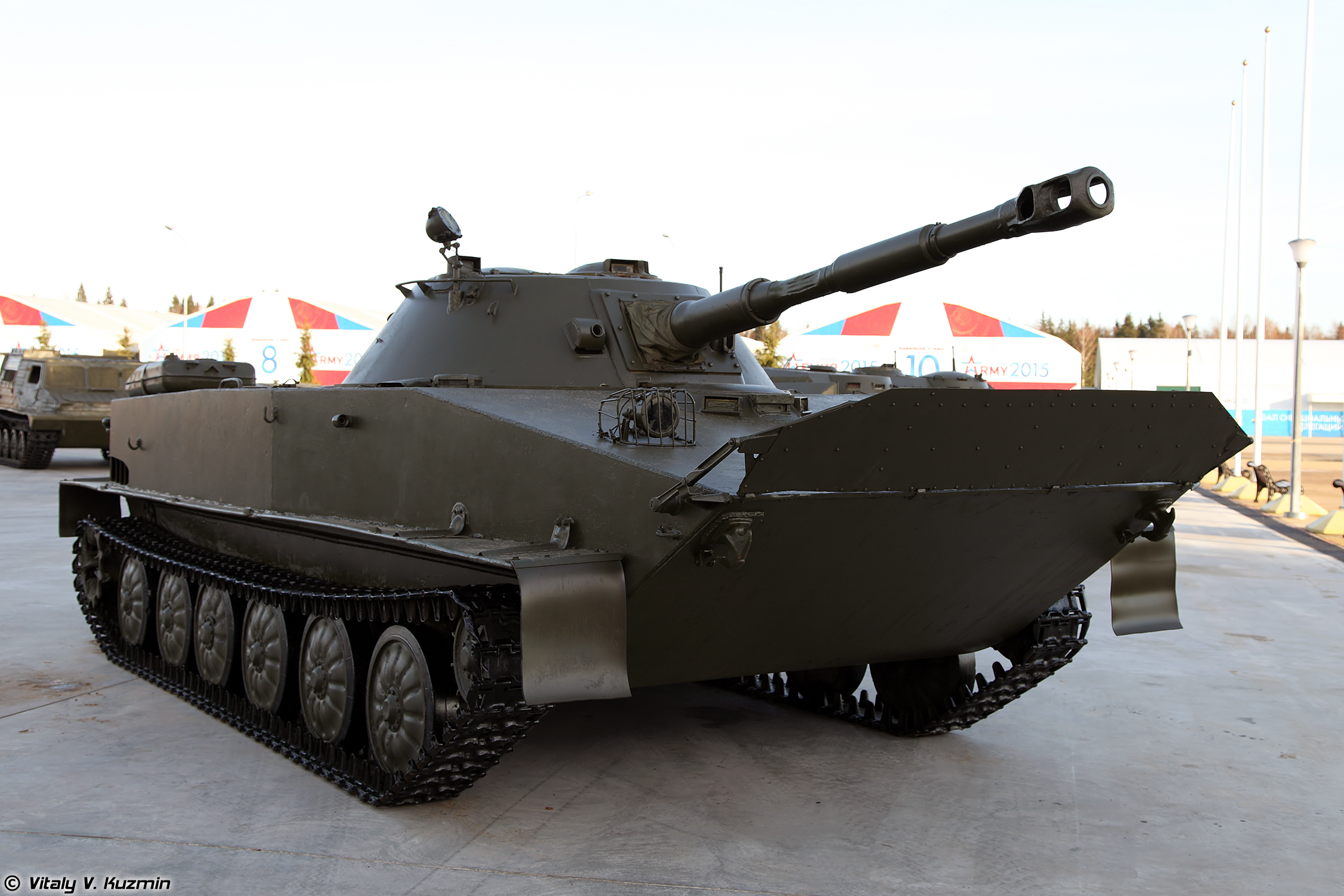 Light amphibious tank PT-76B